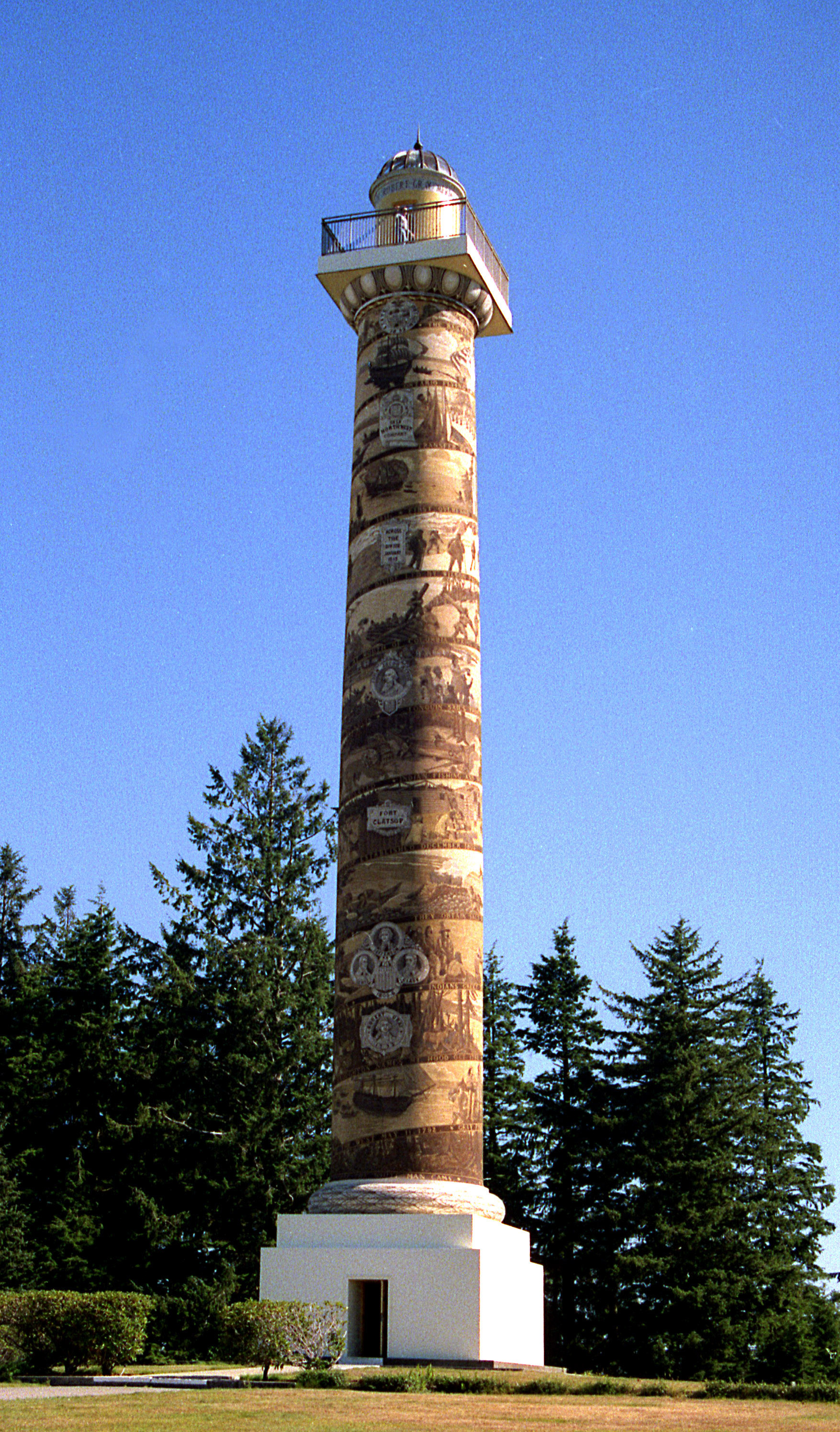 Astoria Column - Memorial for the explorers Lewis and Clark who led a two and a half year expedition with 45 men, started at St-Louis on May 14, 1804, by order of President Jefferson. (upstream the Missouri River, thru Montana and Idaho and on the Columbia River to the Pacific - and same way back - 14’000km)